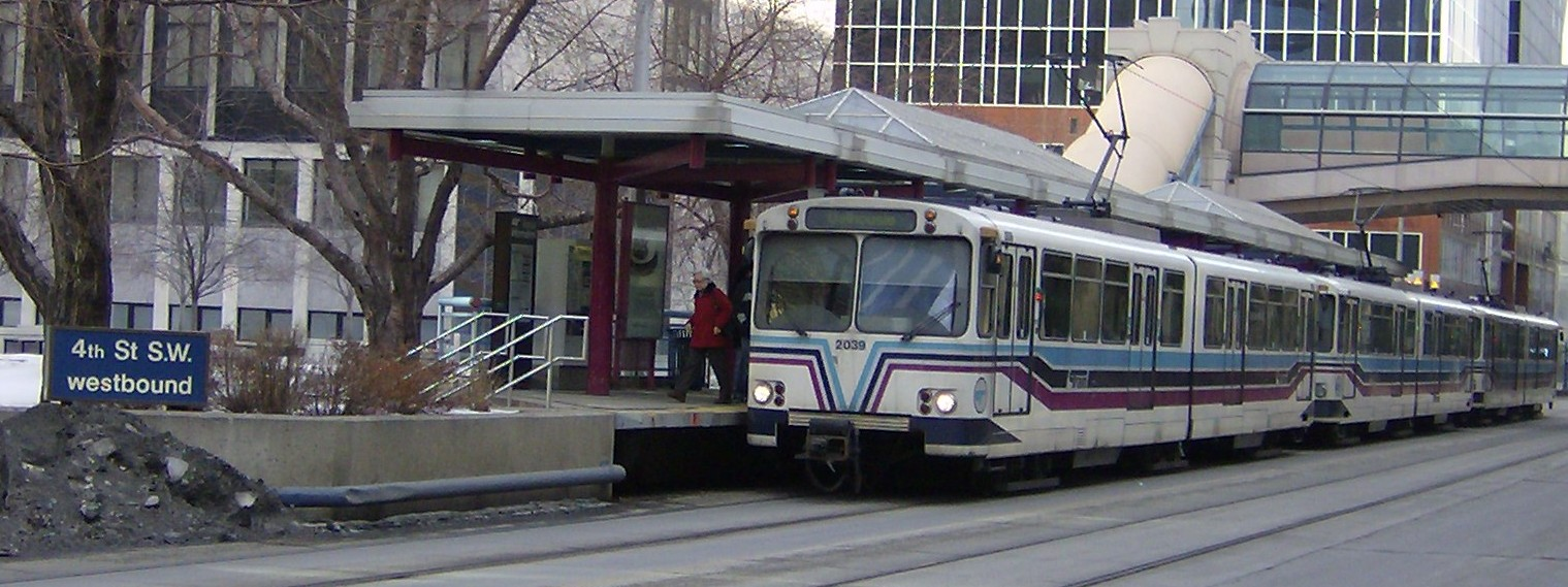 4 Street Southwest (C-Train) C-Train platform in Calgary, Alberta, Canada. This image has been cropped.